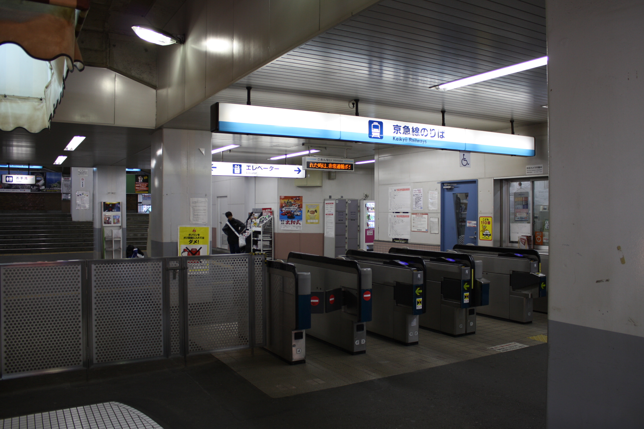 Keikyu Rokugo Dote station concourse